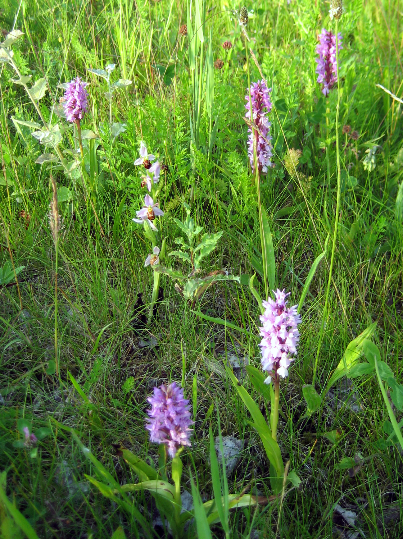 One Ophrys apifera and several Dactylorhiza praetermissa, near Amsterdam, Holland